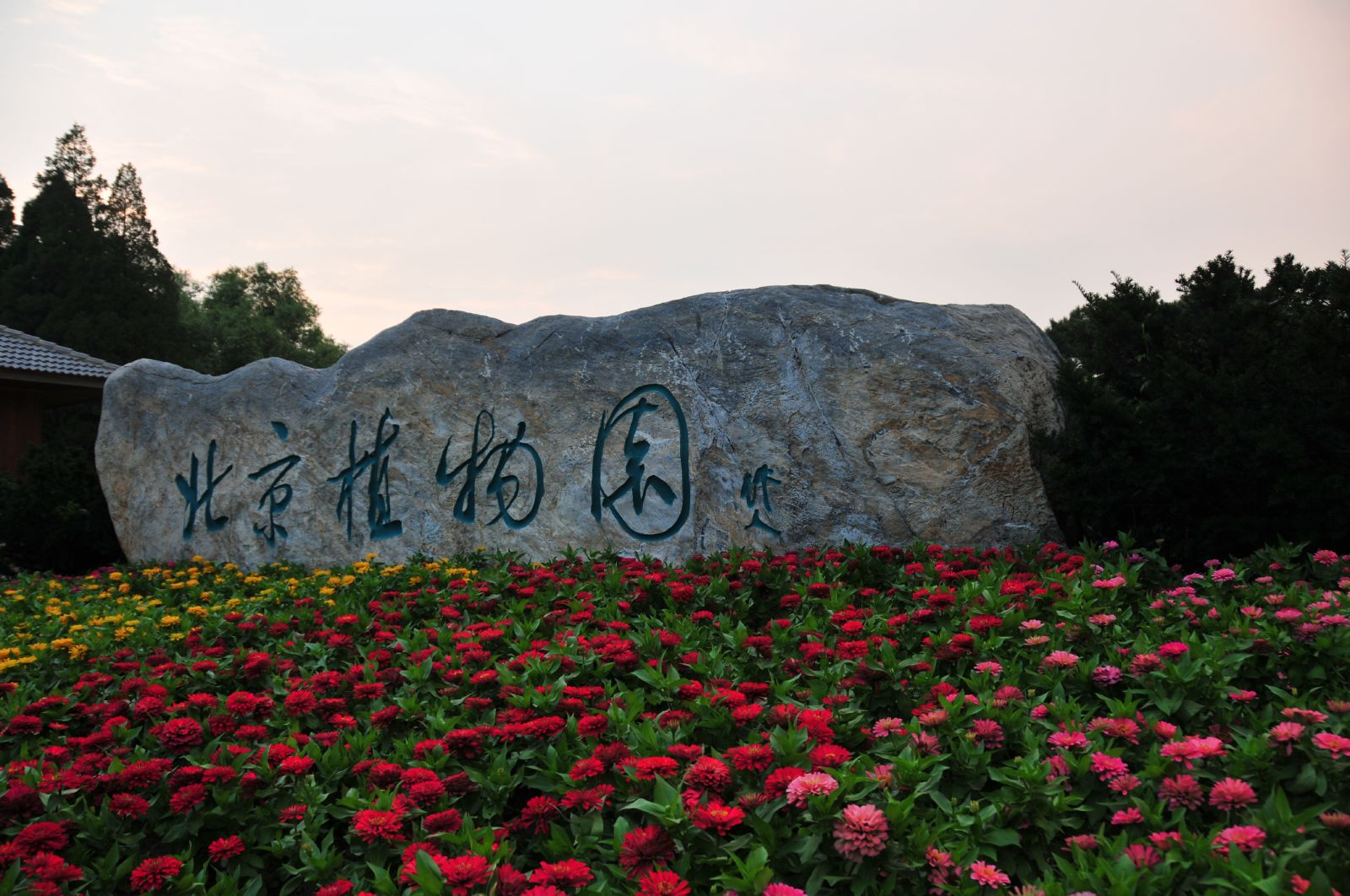 The Beijing Botanical Garden